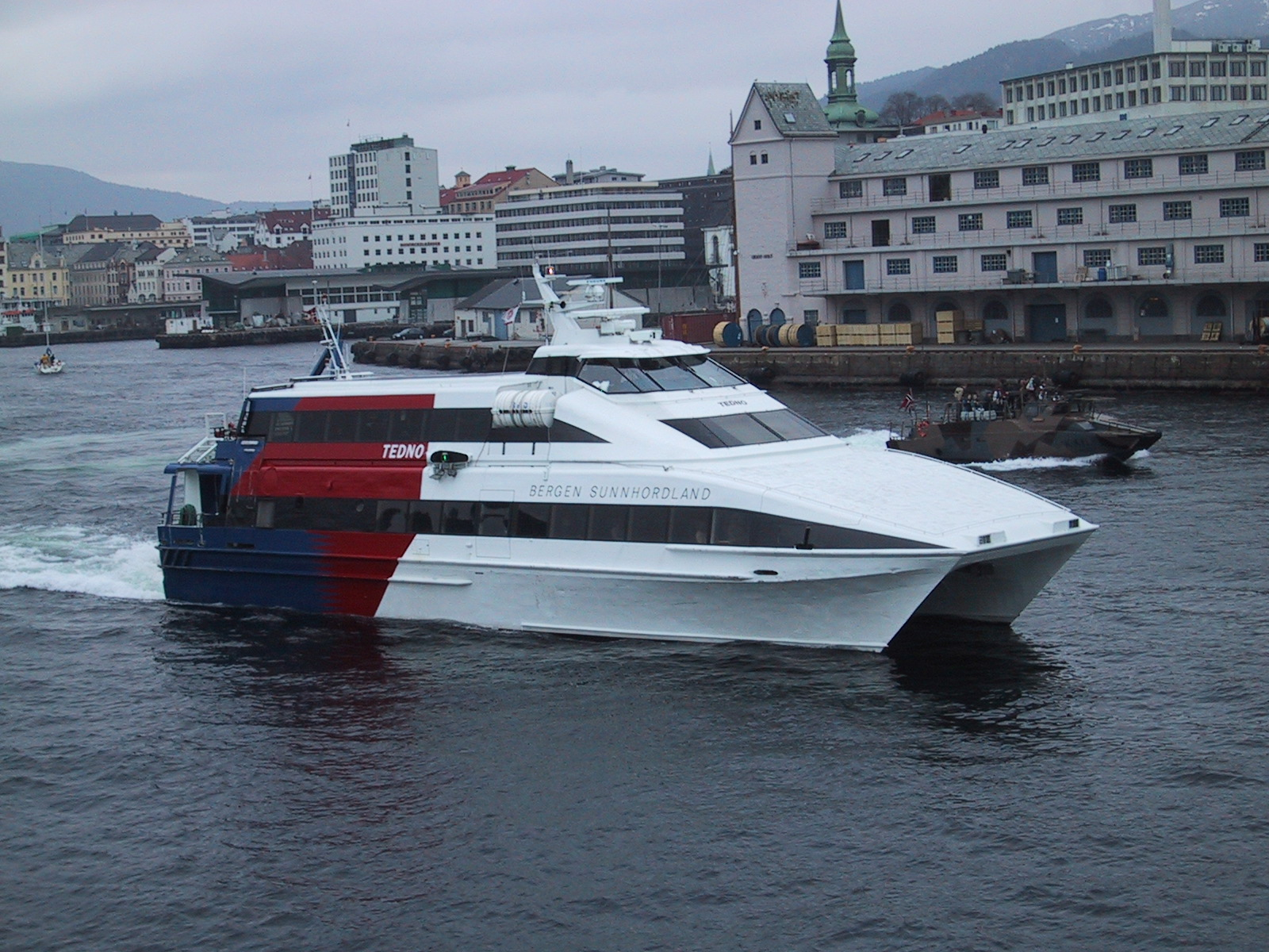 M/S Tedno, built 1992.